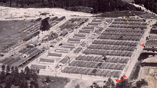 Camp Toccoa